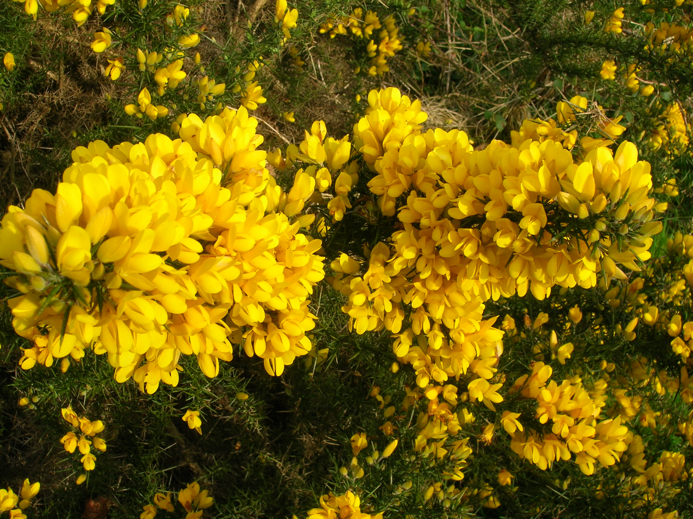 Whin / Gorse in full flower. Ayrshire. Scotland.